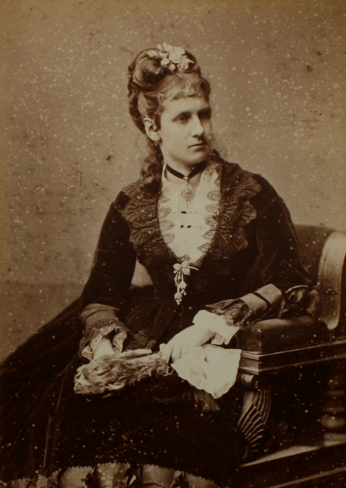 Maria Theresa of Austria-Este, Queen of Bavaria.